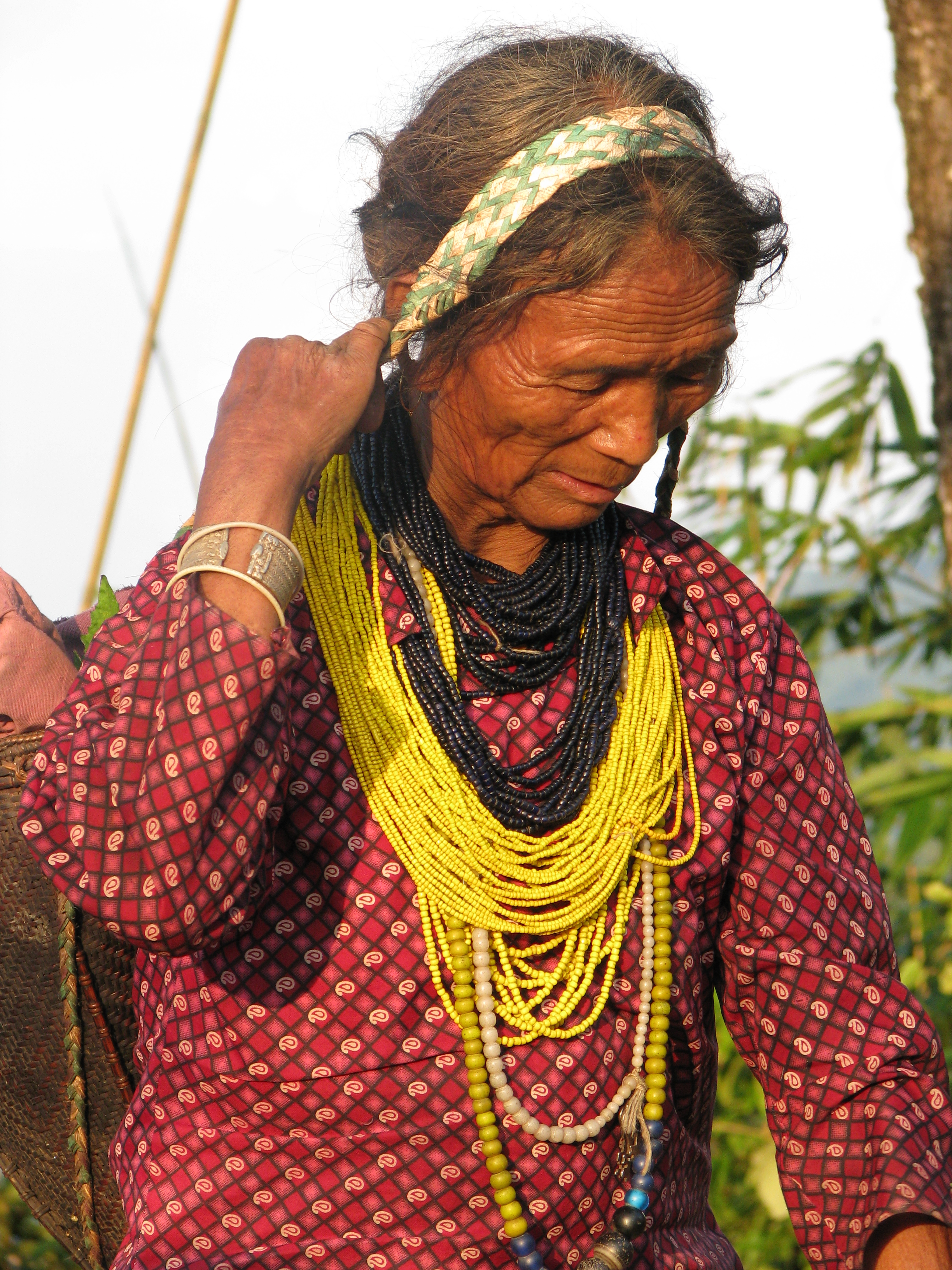 Nyishi woman in Lelung village, Arunachal Pradesh, India